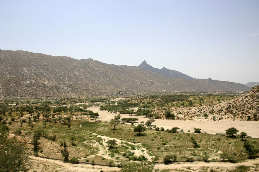 Battle of Keren Battlefield - Mountains around Keren